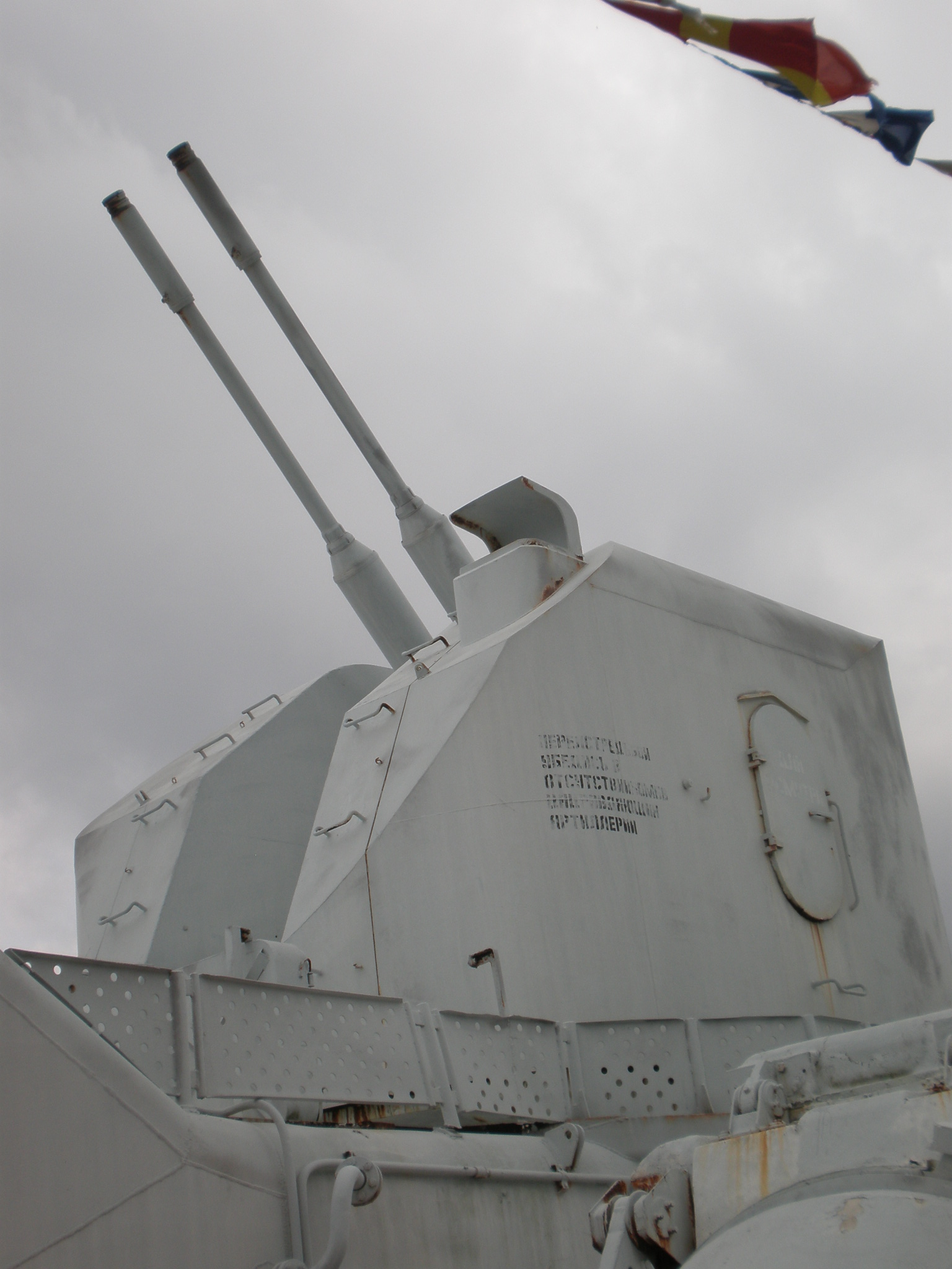 The bowt twin 76.2 mm gun of the former Soviet aircraft carrier Minsk. The Minsk is the centerpiece of the Minsk World military theme park in Shenzhen, China.